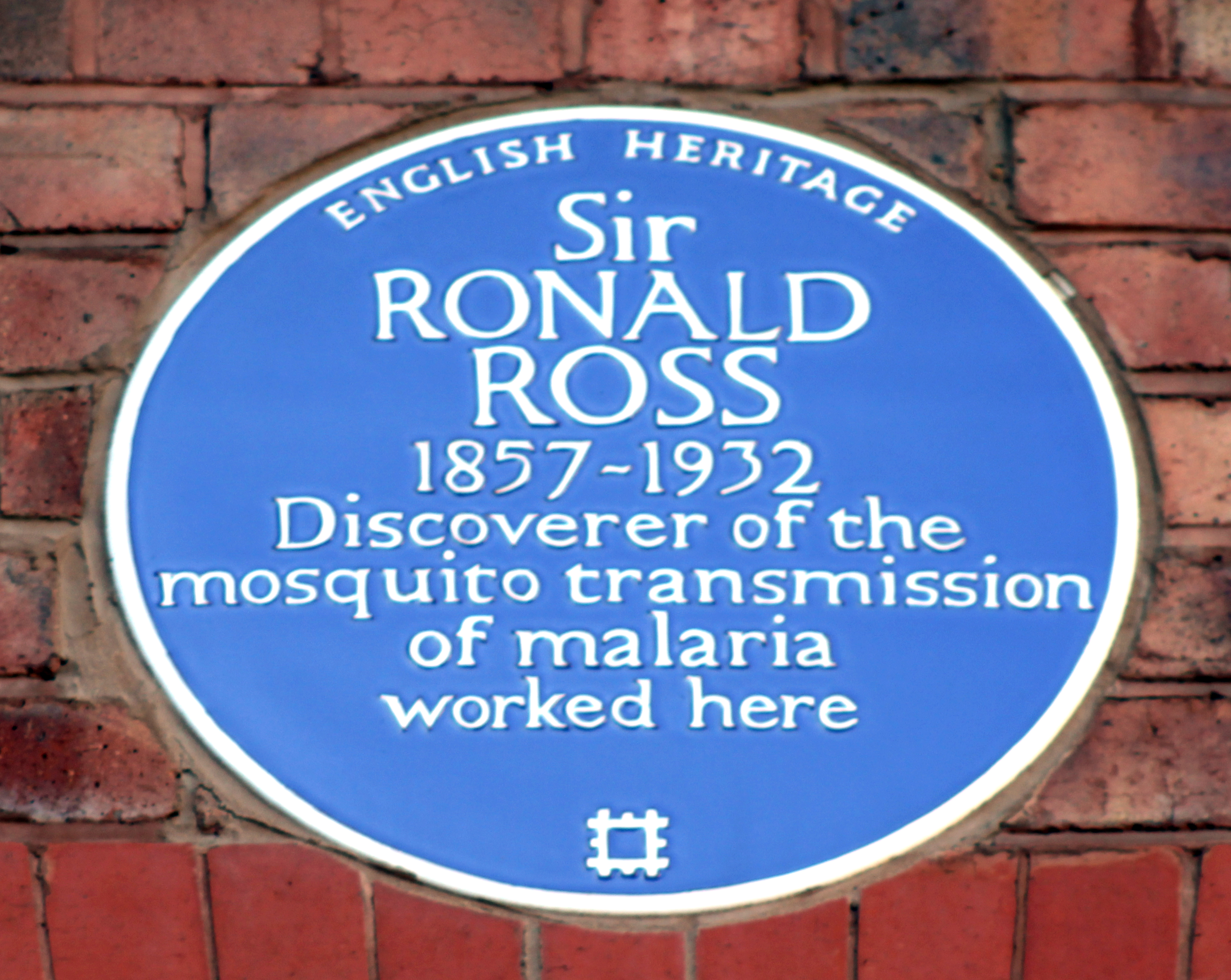 Plaque in The Quadrangle, University of Liverpool, to Ronald Ross, Britain's first Nobel Laureate.